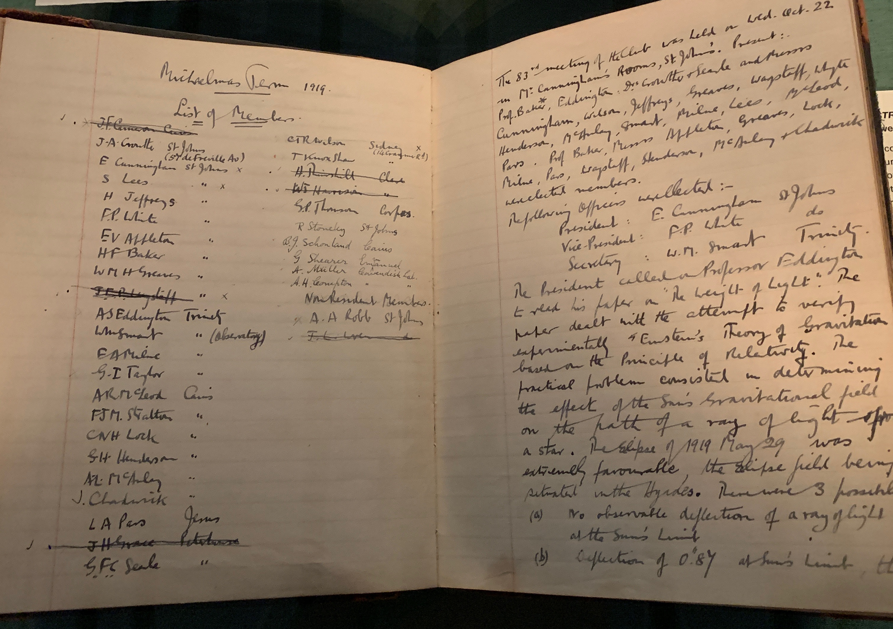 The minute book of Cambridge ∇2V ("Del-Squared V") Club for the meeting where Arthur Eddington presented his observations of the curvature of light around the sun, confirming Einstein's Theory of General Relativity. They include the line "A general discussion followed. The President remarked that the 83rd meeting was historic". The text in this image should be transcribed and included in the description on this page. See also Transcription . The Google OCR tool may be of use in transcribing images.